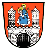 Coat of Arms of Münnerstadt